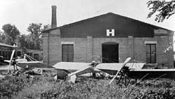 The building where CLyde cessna built some aircraft. Found [1] with a date prior 1923. Believed to be in the public domain.